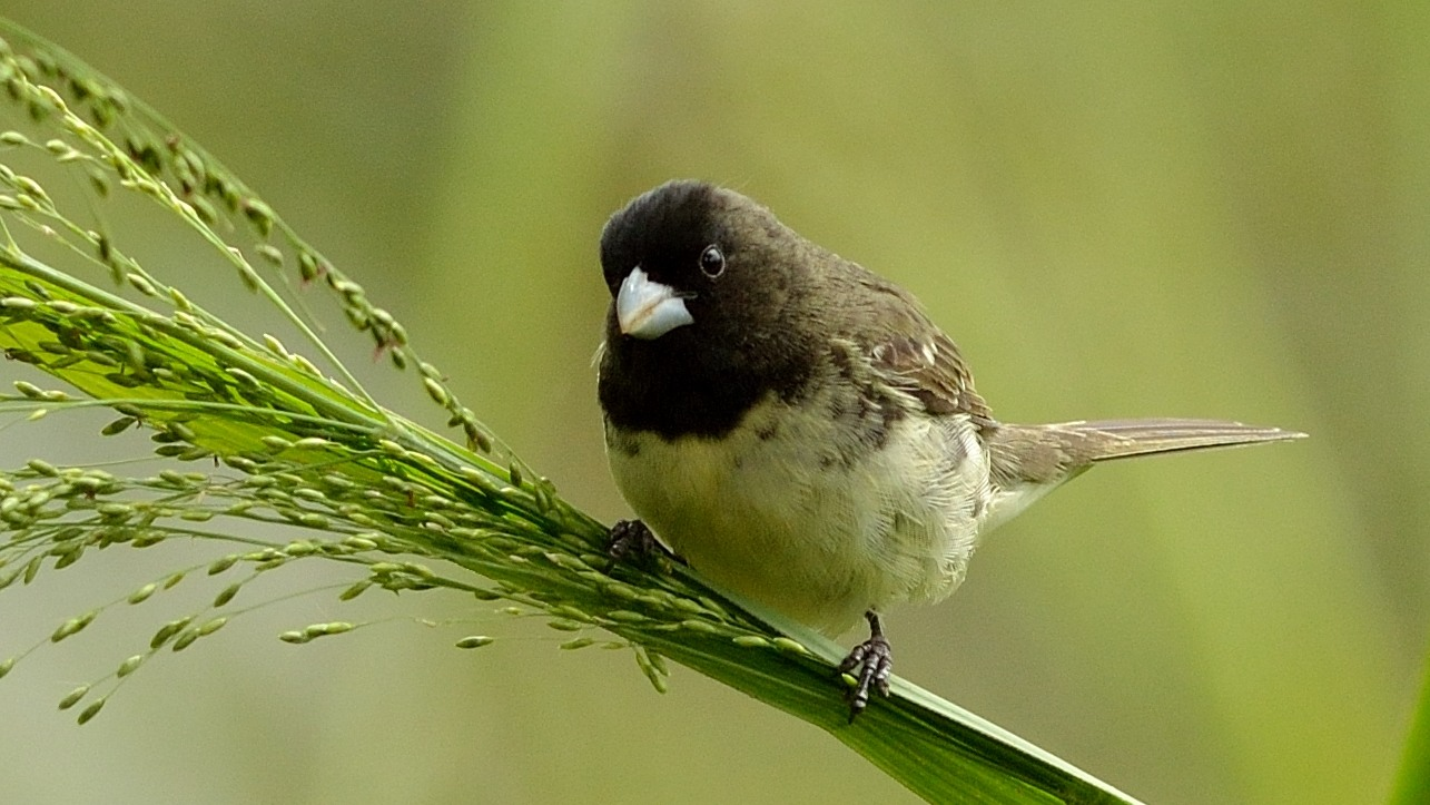 Yellow-bellied Seedeater